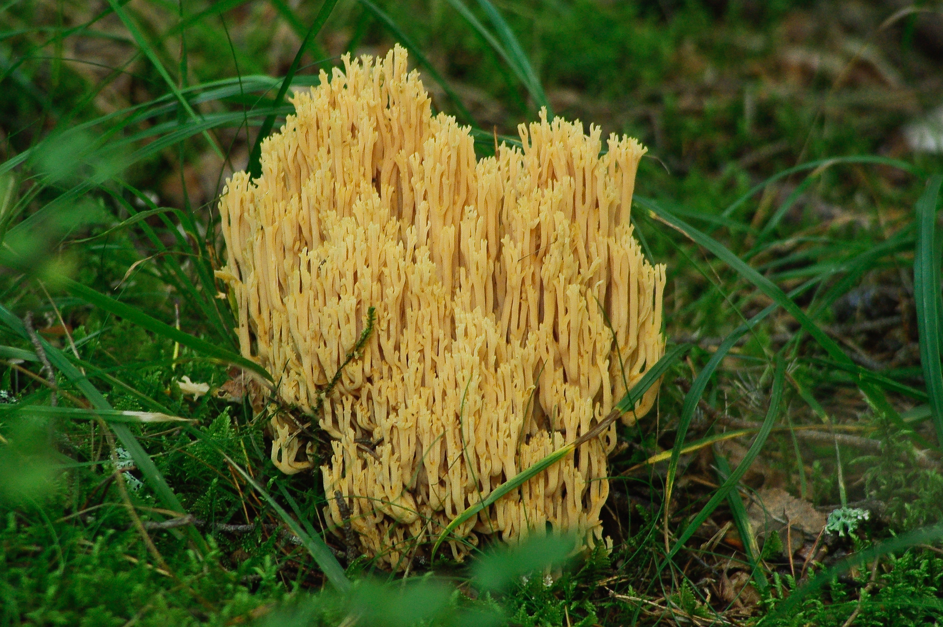 Ramaria Flava